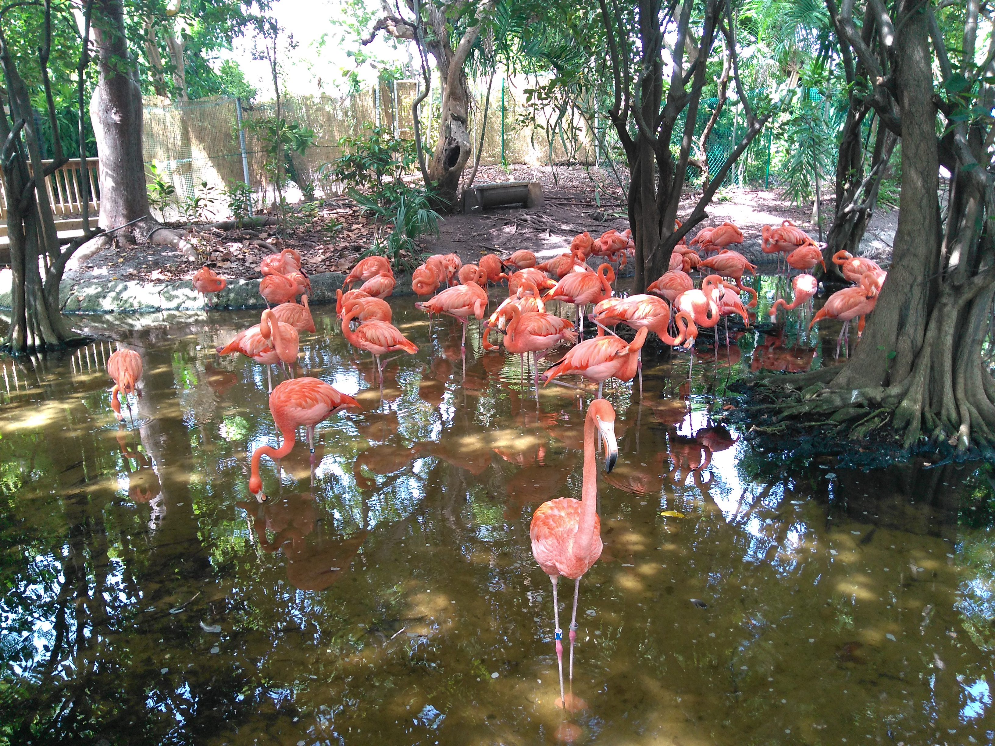 Pink Flamingos